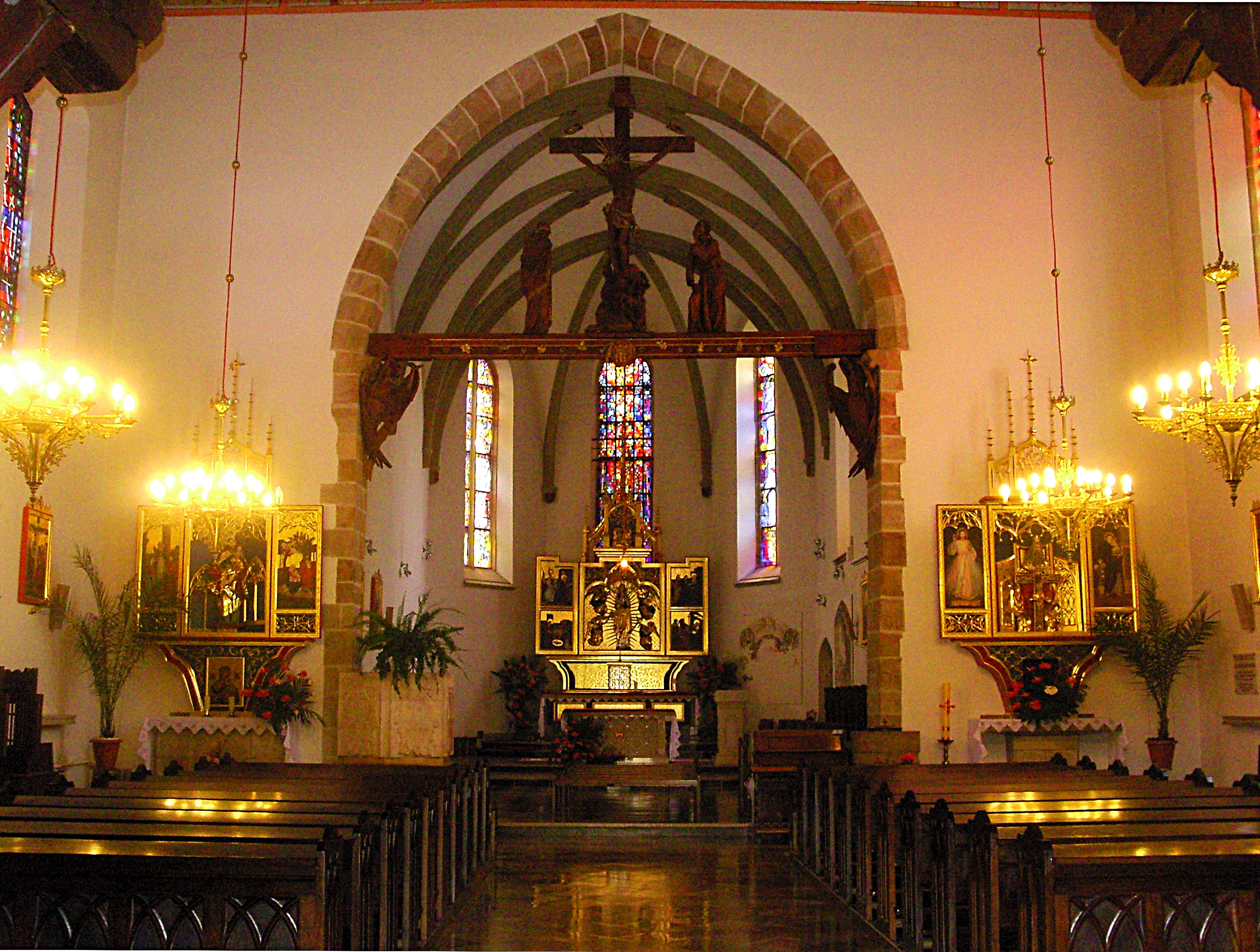 Inside the Church of the Assumption of the Blessed Virgin Mary in Jaslo